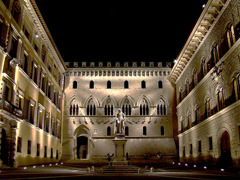 Piazza Salimbeni, Siena, Tuscany, Italy.